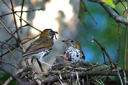 A family of Wood Thrush at John Heinz National Wildlife Refuge at Tinicum, Pennsylvania, USA.